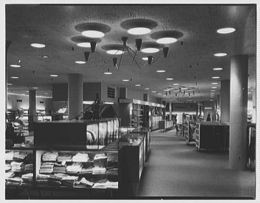 Title: Albert Steiger Company, Springfield, Massachusetts. Abstract/medium: Gottscho-Schleisner Collection (Library of Congress) Physical description: 1 negative